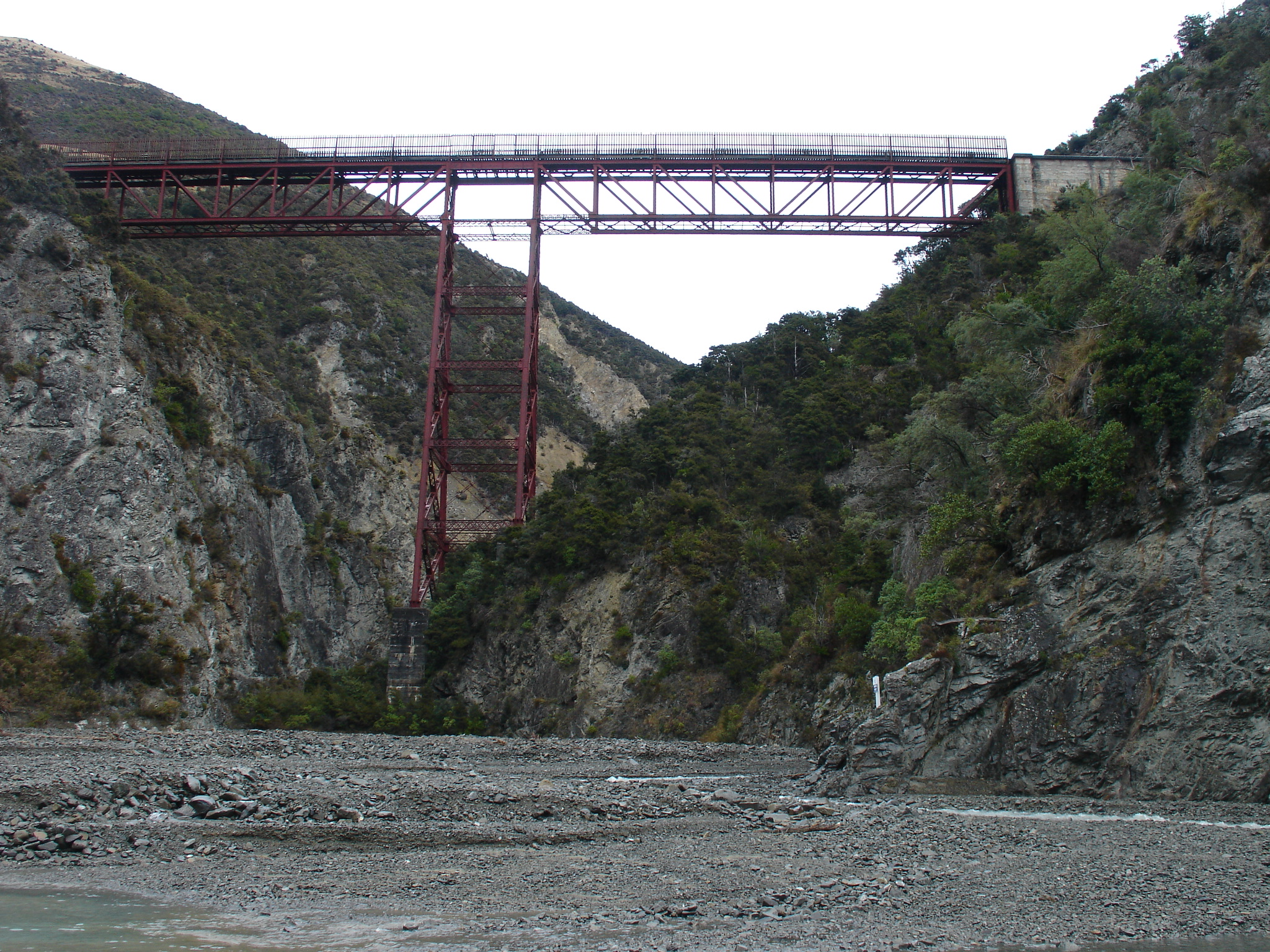 TranzAlpine bridge by Waimakariri River, New Zealand.